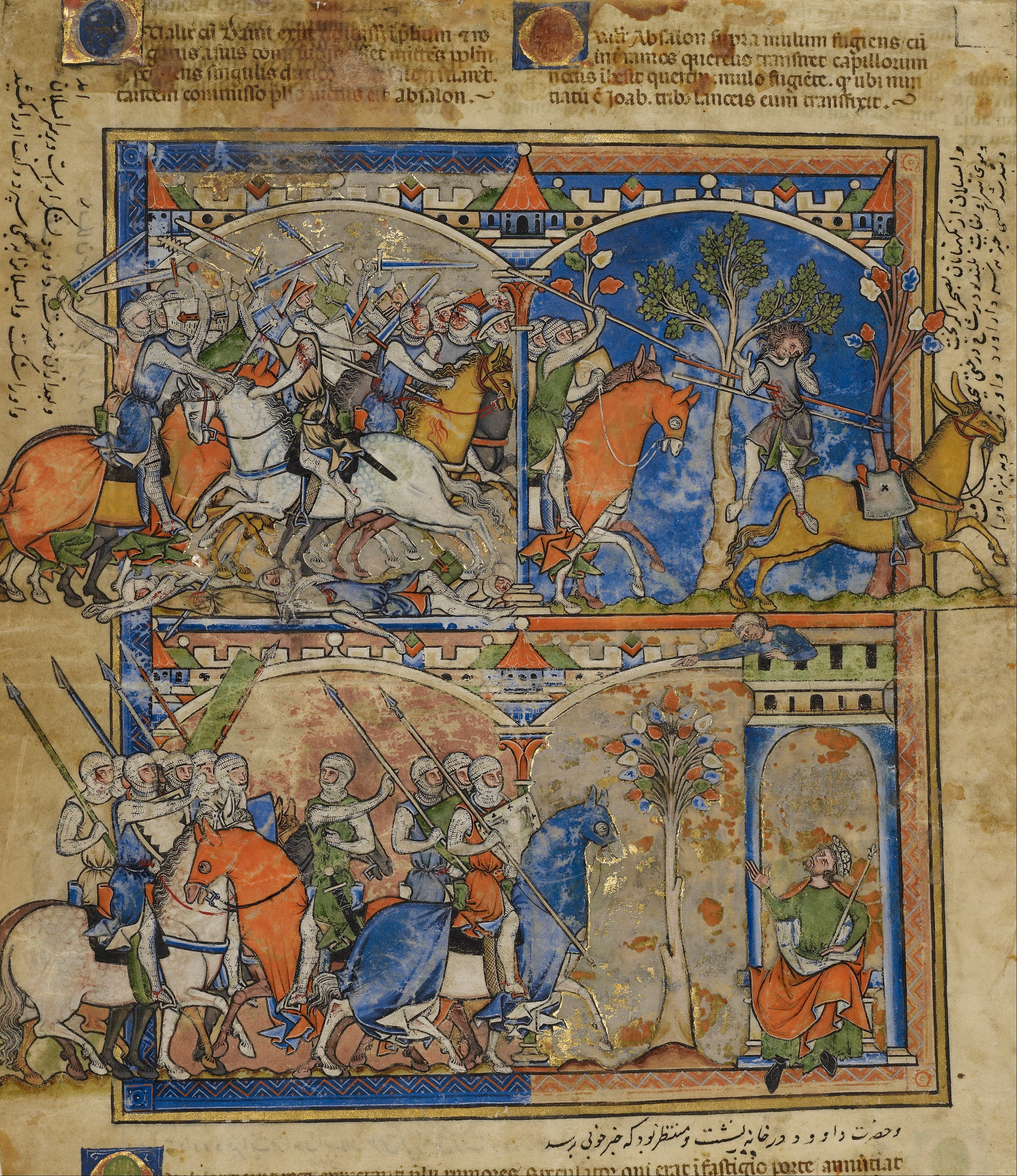 The reverse side of the Morgan Picture Bible leaf continues the story of David and his rebellious son Absalom. On the upper left, the armies of David and Absalom meet in a fierce battle. Horses and knights overlap each other in the confusion of combat, with the knights raising their weapons above their heads, ready to strike. In the next scene to the right, Absalom's hair catches on the branches of a tree as his mule passes under it. Taking advantage of the situation, David's servants pierce the helpless Absalom with their spears. In the scene below, David anxiously awaits news of the battle, his eyes directed up at a servant, who points to the approaching riders, and at the scene of his son's death above. His pained expression and upraised hand seem to indicate that he expects unwelcome news. An architectural structure and variation in the background color give structure to the miniature's various scenes, echoing the forms and colors of contemporary stained-glass windows.